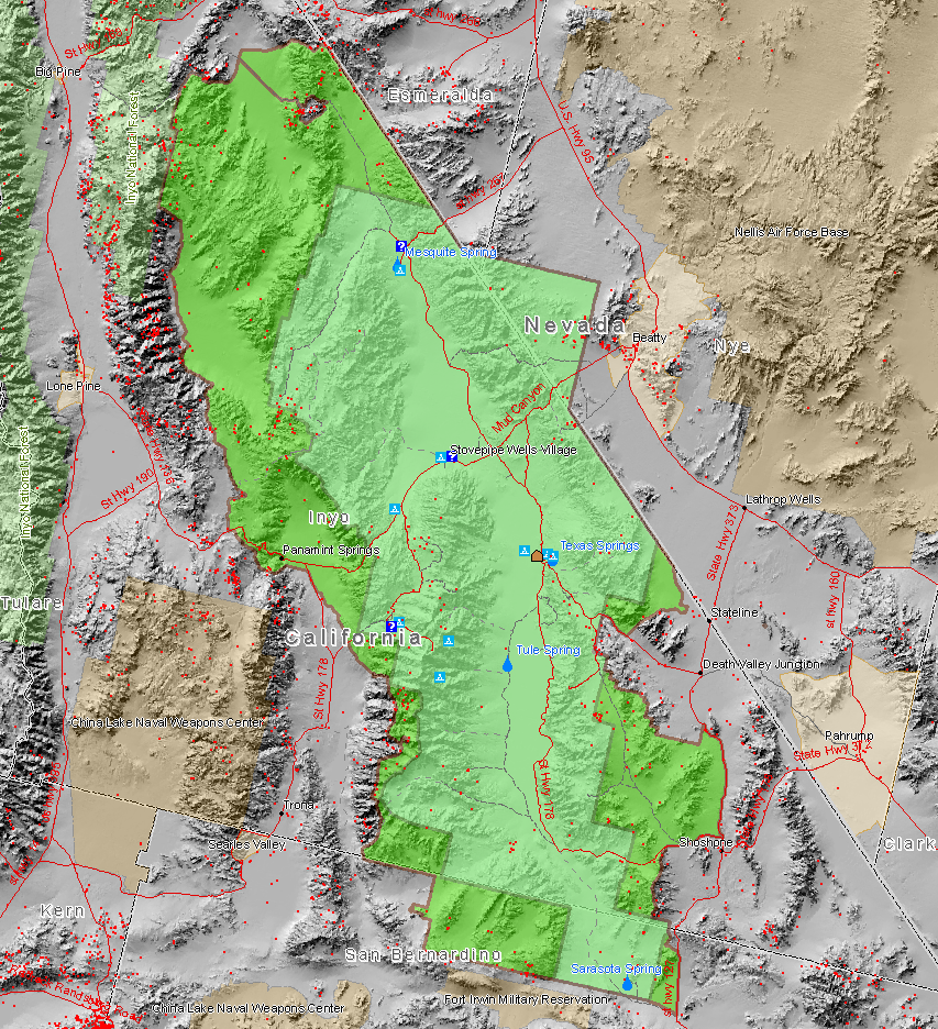 Map of the Death Valley National Park showing surrounding area and the previous smaller extent of the Park. Red dots are mine sites, blue triangles are camp sites, and blue question marks are tourist information facilities. This map also shows the old borders of Death Valley National Monument and the new borders of the expanded national park.